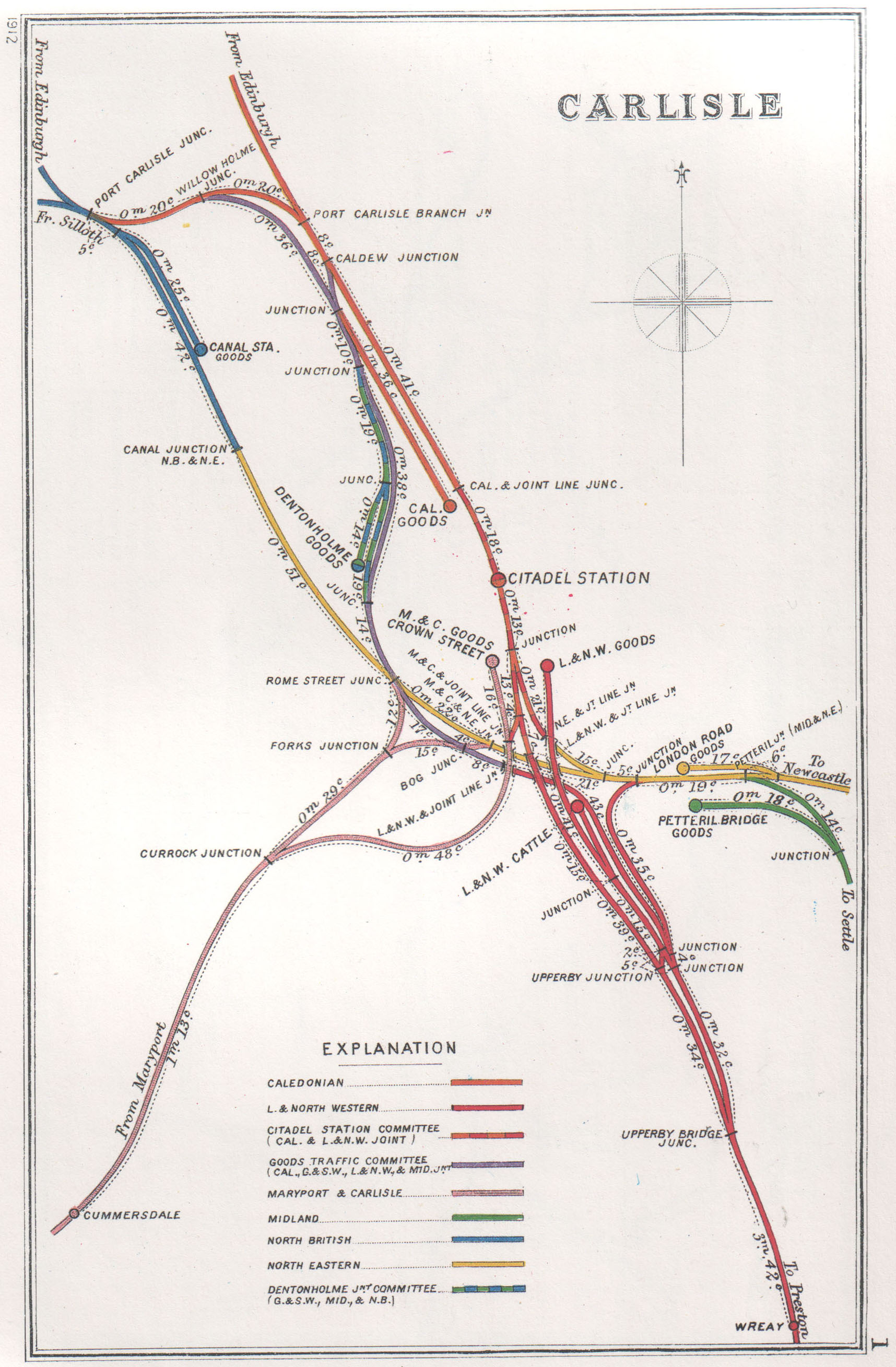 Pre Grouping railway junction around Carlisle